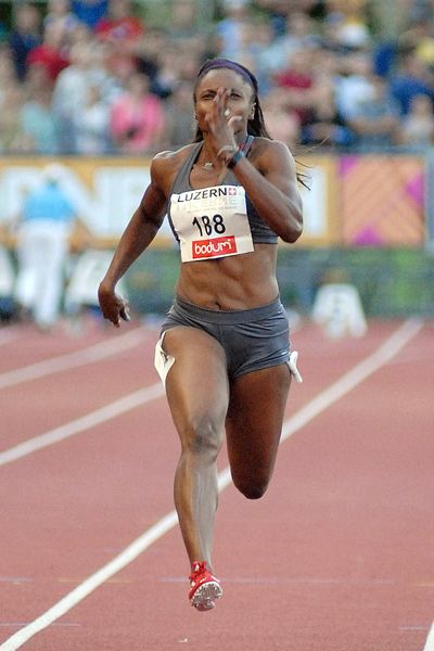 Bailey Aleen at "Spitzen Leichtathletik Luzern, Lucerne", 2012, Switzerland